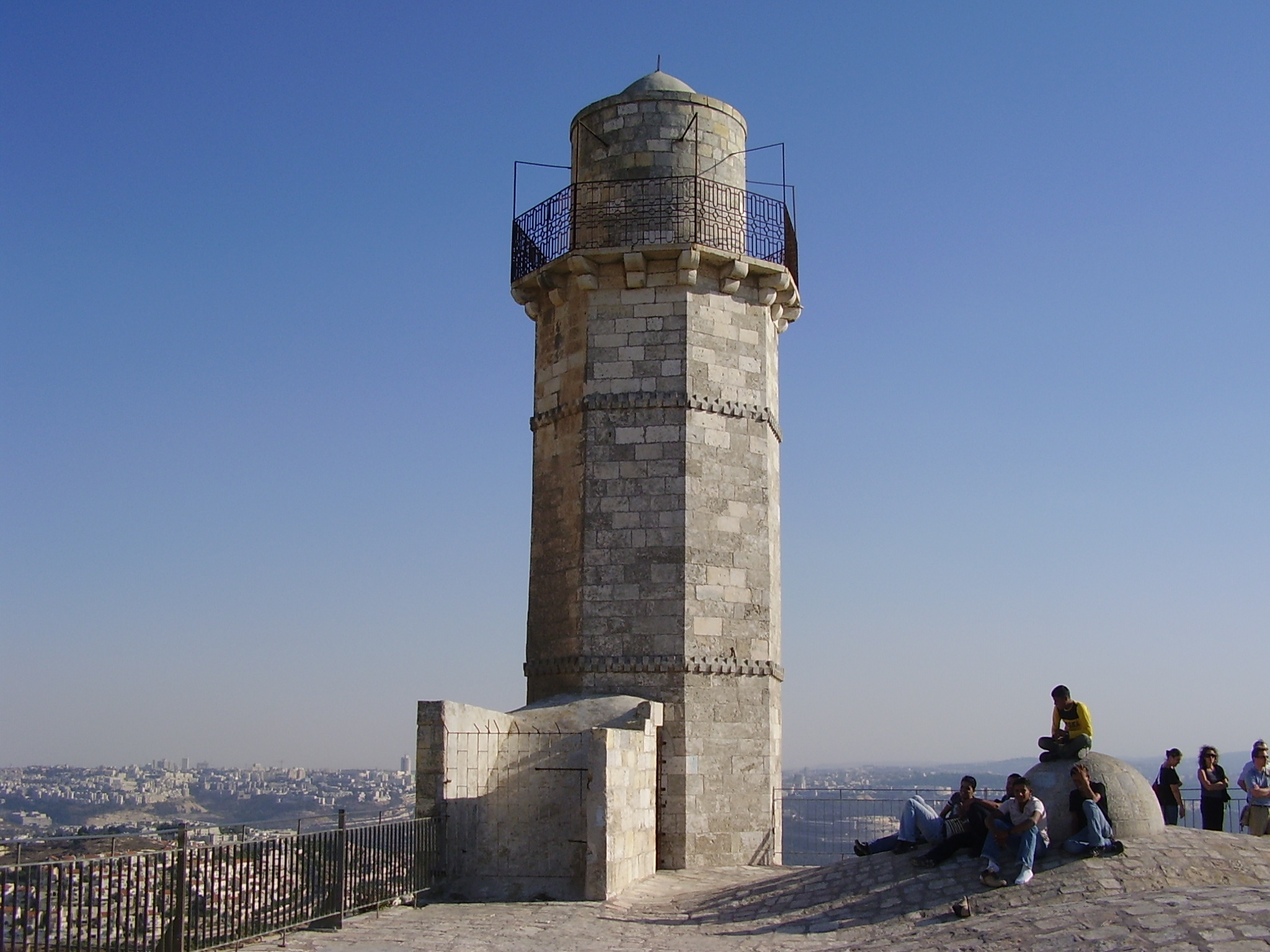 nabi samuel minaret